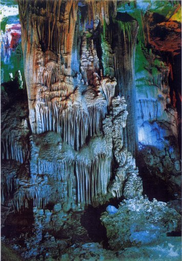 Tien Son Cave in Phong Nha-Ke Bang